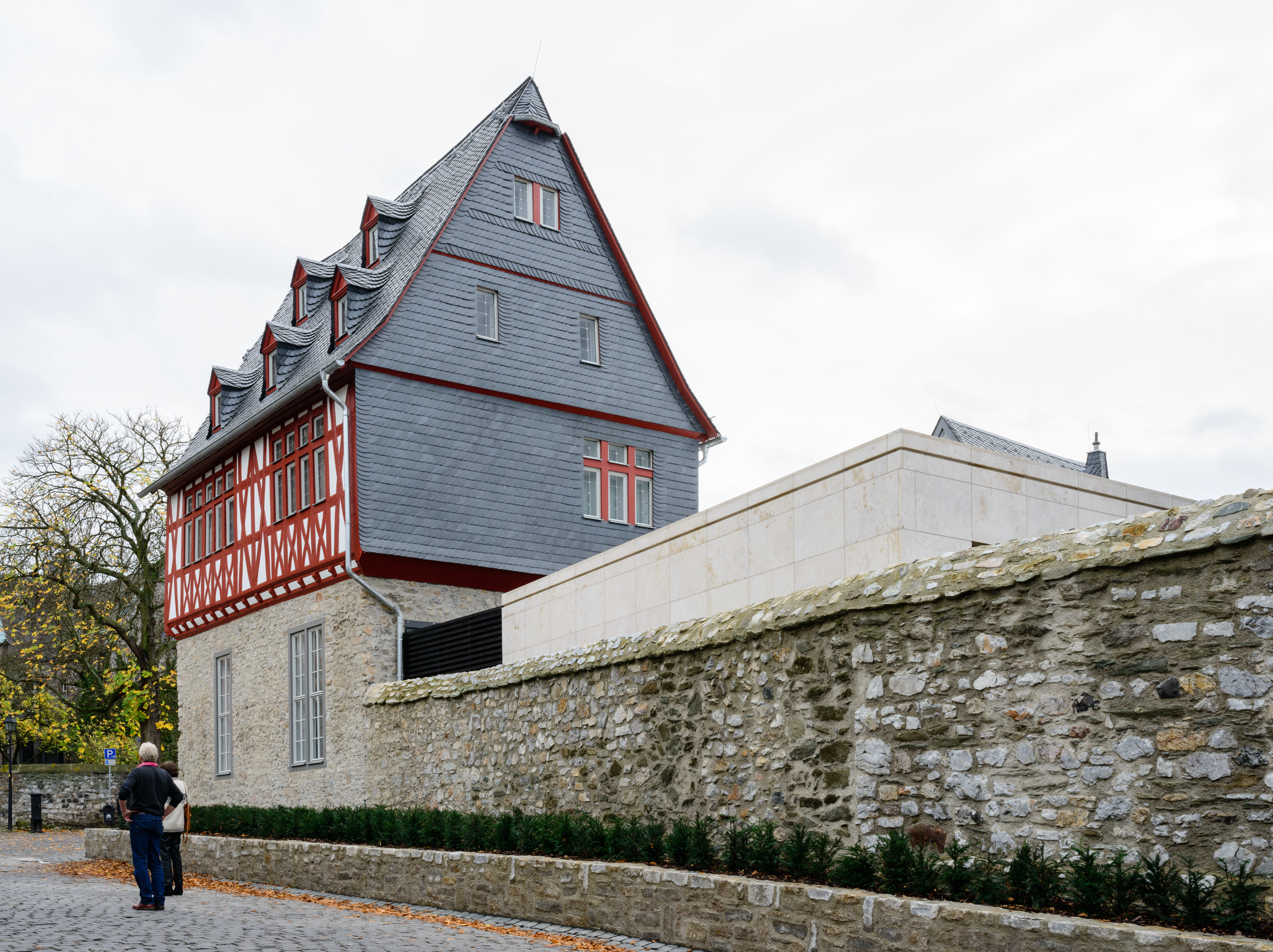 Residence of the bishop of Limburg (after rebuilding during the tenure of Franz-Peter Tebartz-van Elst).